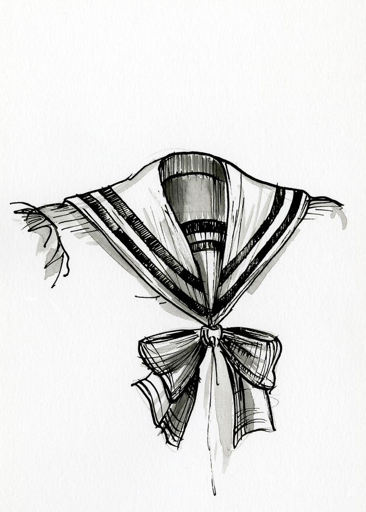 Drawing of the Thesaurus concept : 'sailor collar'.